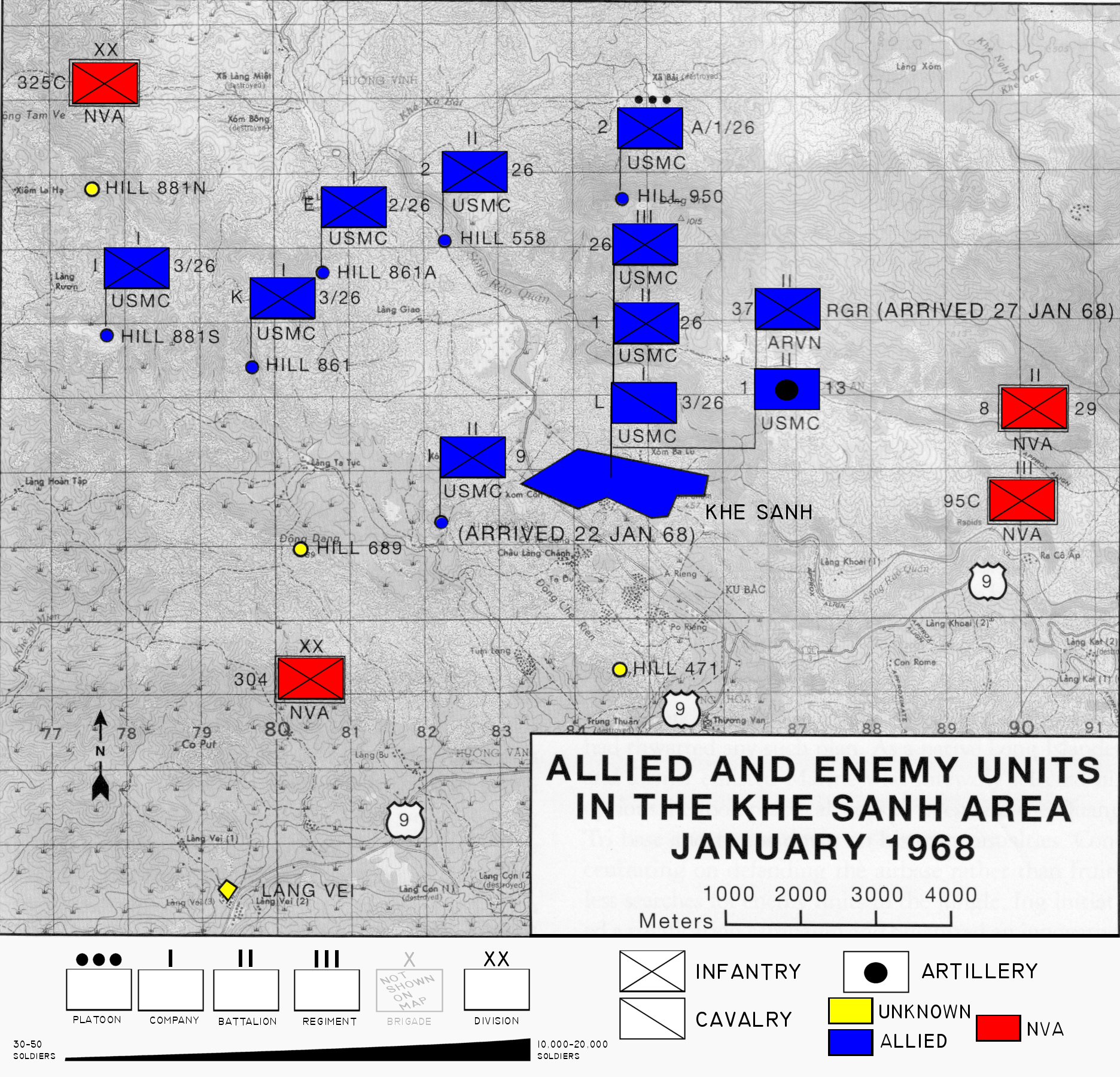 Map of area surrounding Khe Sanh during the Tet Offensive modified to include color and explanation of map symbols